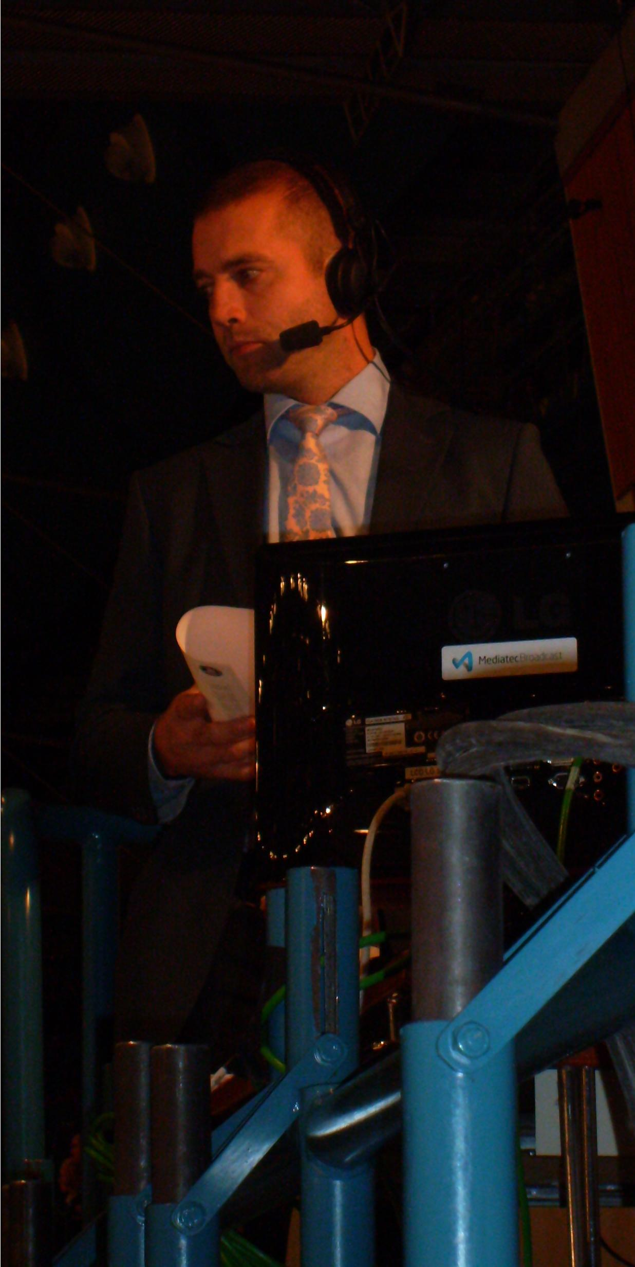 Johan Tornberg, former ice hockey player.